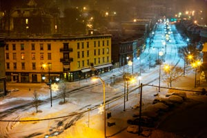 a photo of lower broadway in the rondout area of kingston ny